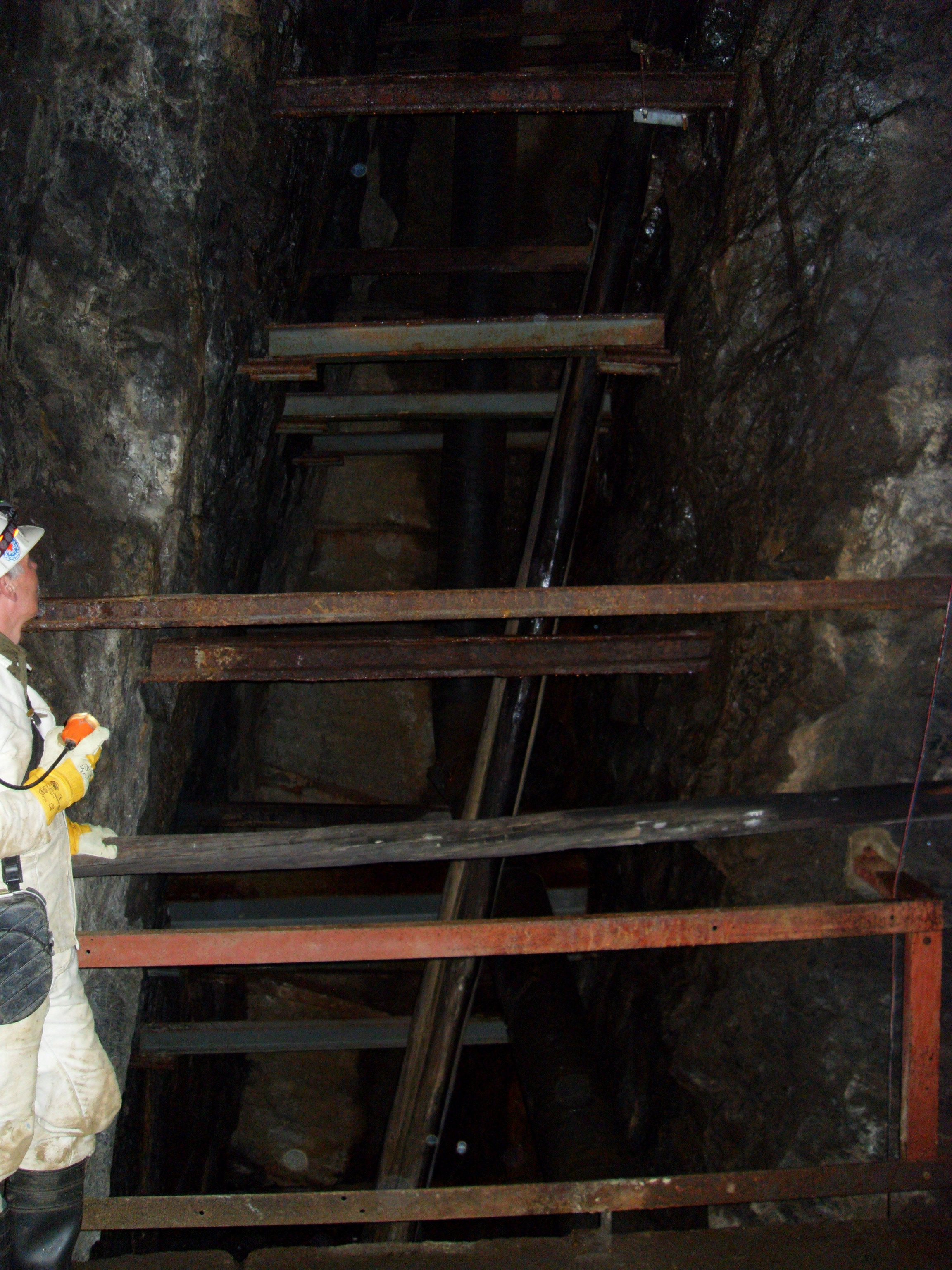 View of the inclined shaft at the Samson Pit, St. Andreasberg, in the Harz Mountains of central Germany